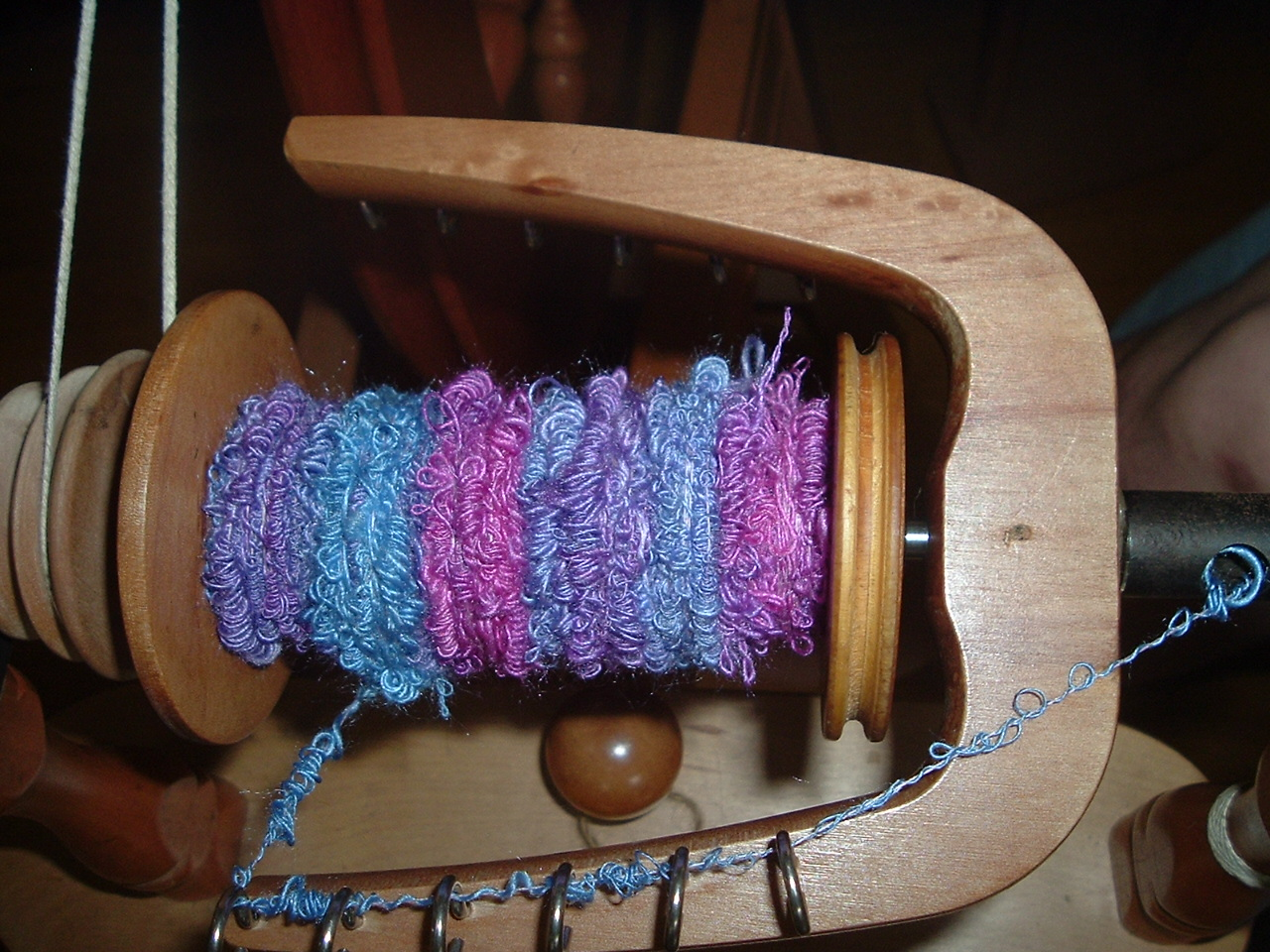 A picture of the second stage in handspinning boucle using the three step process- fiber content is silk and cotton thread.